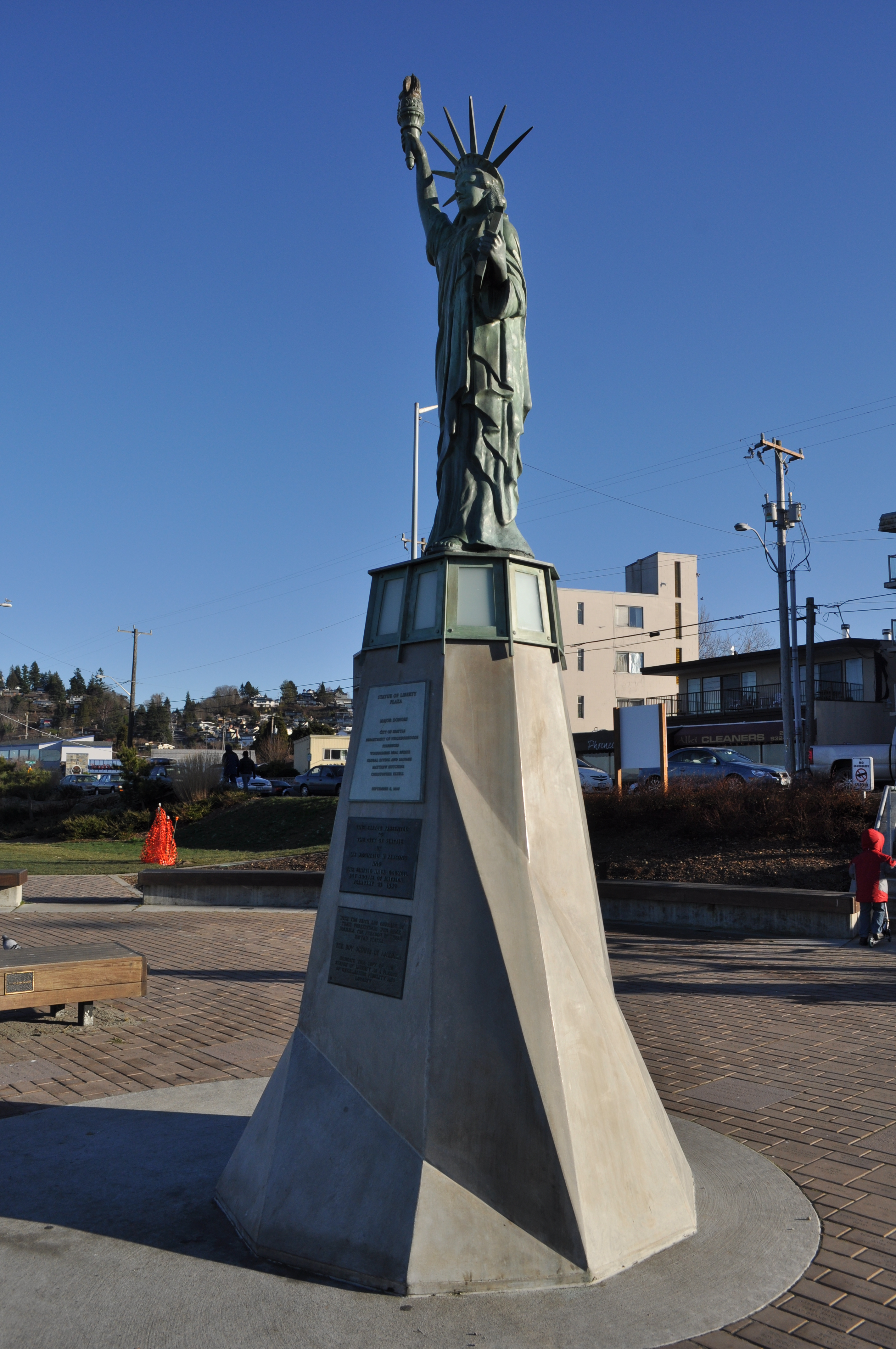 Small replica of the Statue of Liberty on Alki Beach, Seattle, Washington, U.S. near the site of the landing of the Denny Party, generally considered the founders of Seattle. The current statue, erected September 2007 is in bronze. It is a replica of a statue erected 1952 on this site; that one was plaster sheathed in copper.